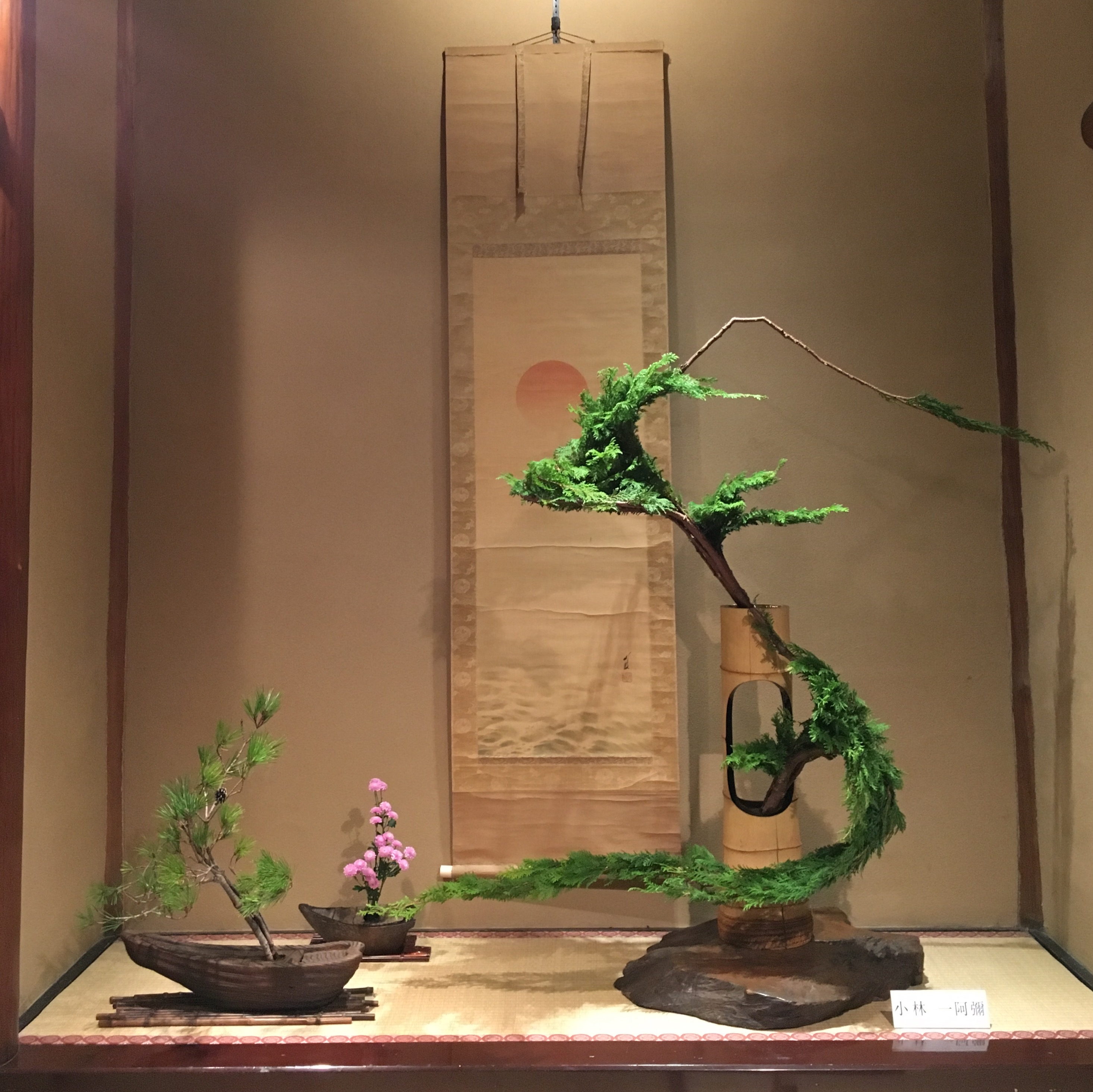 Traditional arrangements of Miyako Ko-ryū. The arrangement on the right shows the outlines of Mount Fuji. 51 different schools of Ikebana belonging to the largest Ikebana organization in Japan, the “Public Interest Incorporated Foundation Japan Ikebana Art Association,” presented their works in exhibitions at the Meguro Gajoen that changed weekly. From the traditional Rikka (vase arrangement) with flowers and fruits that embody autumn colors to the dynamic Jiyuuka (free-style arrangement) that utilized the entire room, works from various schools were shown in one exhibition. Photographing was permitted for the first time that year.